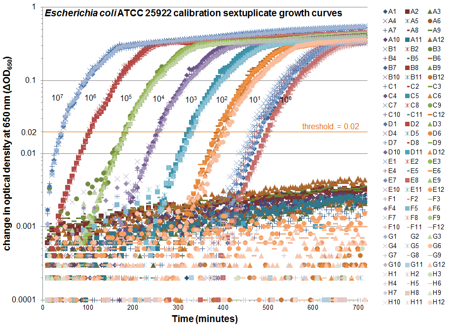 This kinetic plot shows the results of a calibration experiment that relates CFUv to threshold time for use with the Virtual Colony Count antibacterial assay. It was recorded using a Tecan infinite M1000 plate reader set at 37 degrees C, a Costar 3595 96-well plate, and PMHT media (1:1 10 mM sodium phosphate pH 7.4 with 1%TSB:twice-concentrated Mueller-Hinton Broth)